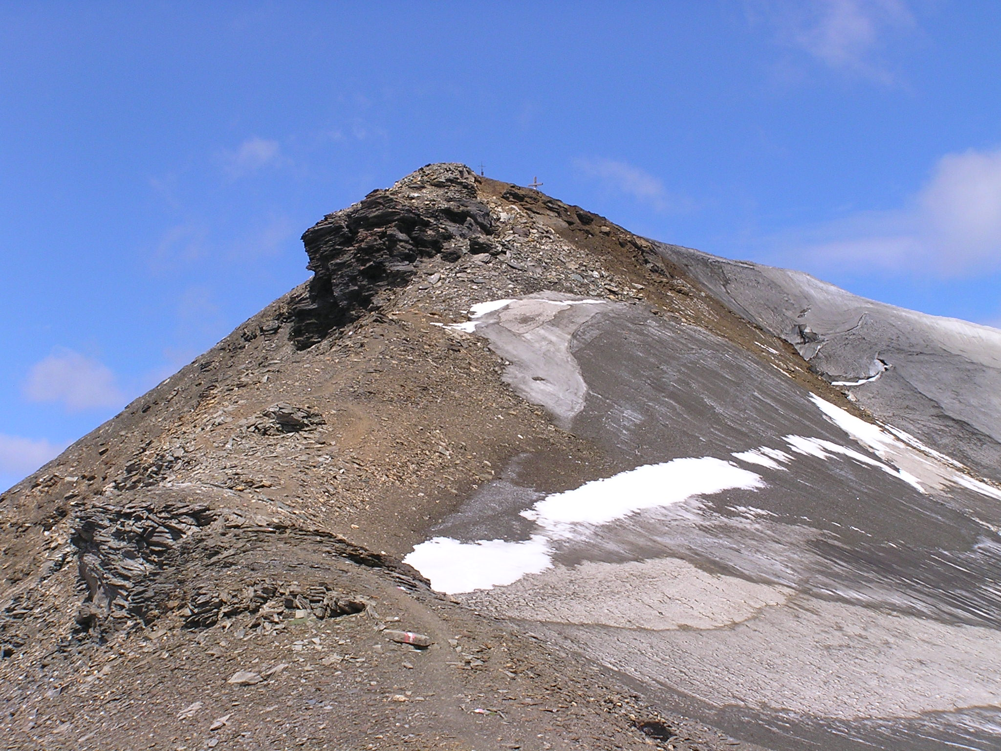 Top of Hocharn (3254m), a mountain at the border of Salzburg and Carinthia, Austria